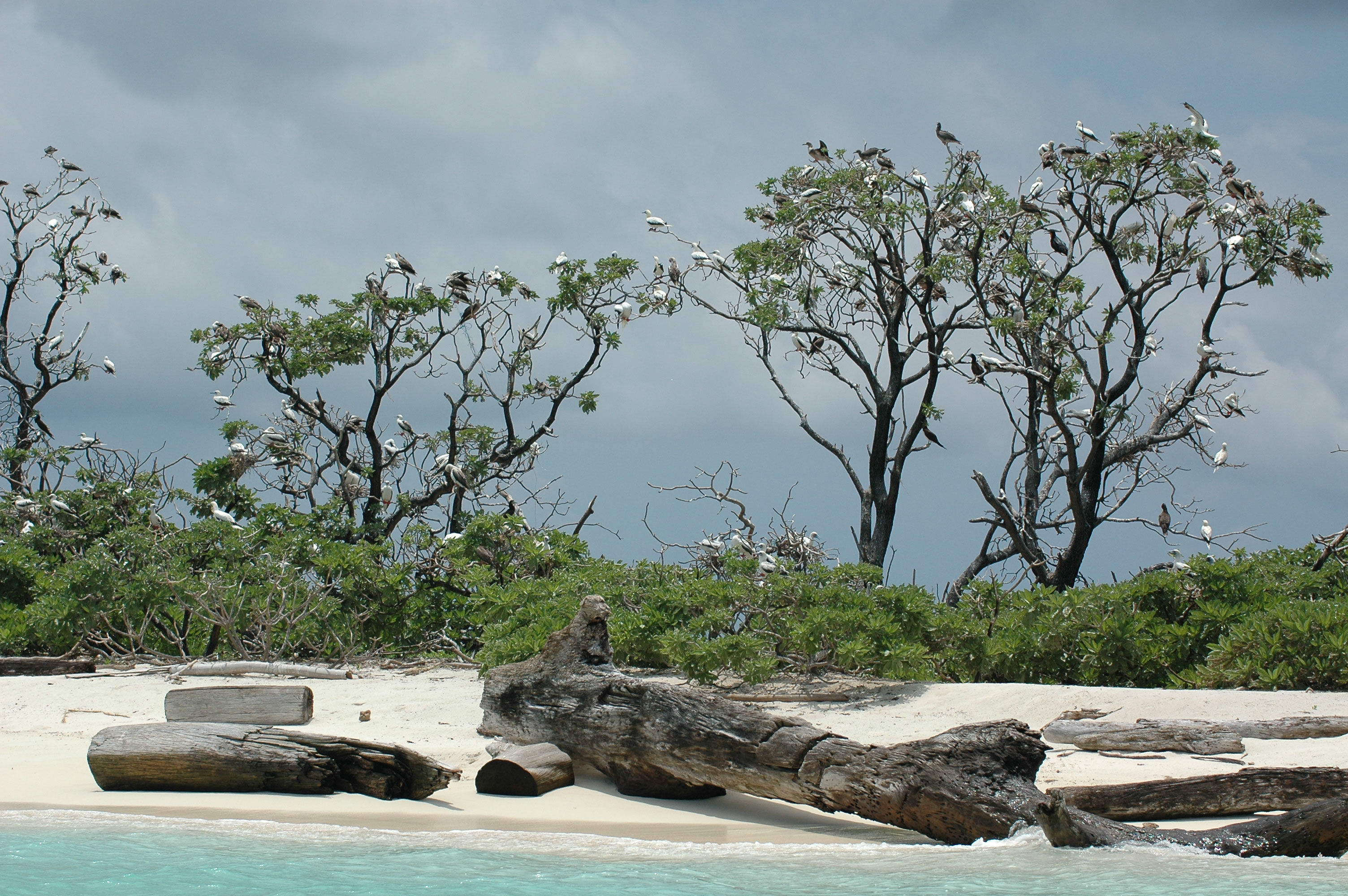 Tubbataha Reefs Natural Park (Philippines)